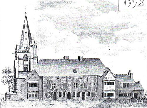 Priory House, Hinckley. The Remains of the prior's residence of the former Hinckley Priory. The tower of Hinckley parish church is also visible